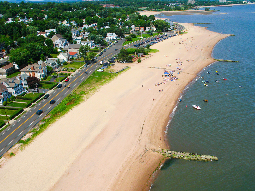 Kite aerial photo overlooking the shoreline of West Haven, CT along Ocean Avenue.